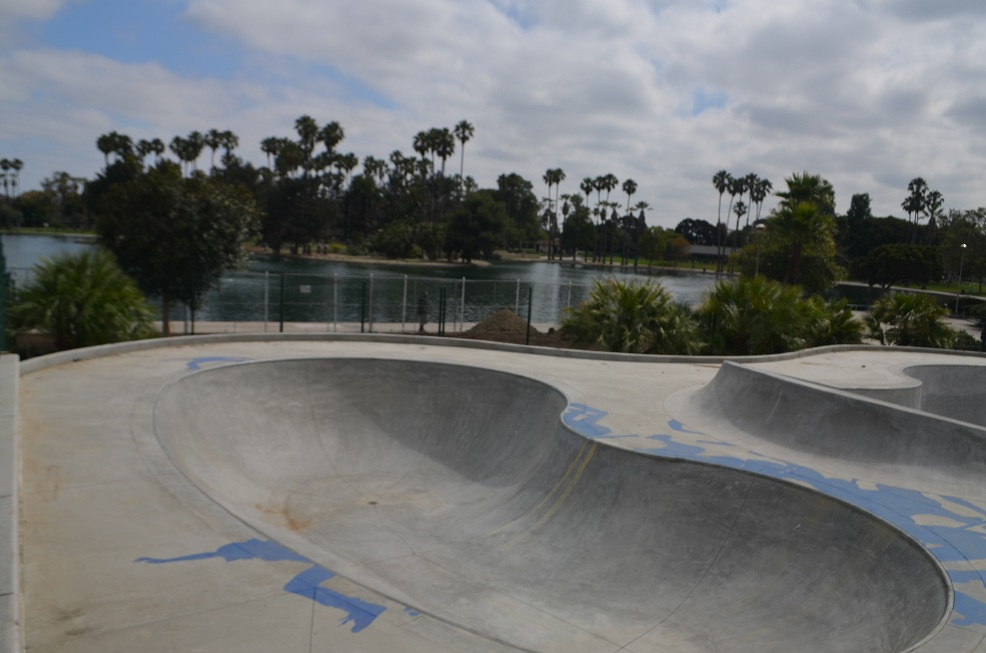 Alondra Skate Park over looking Alondra Lake and Island.